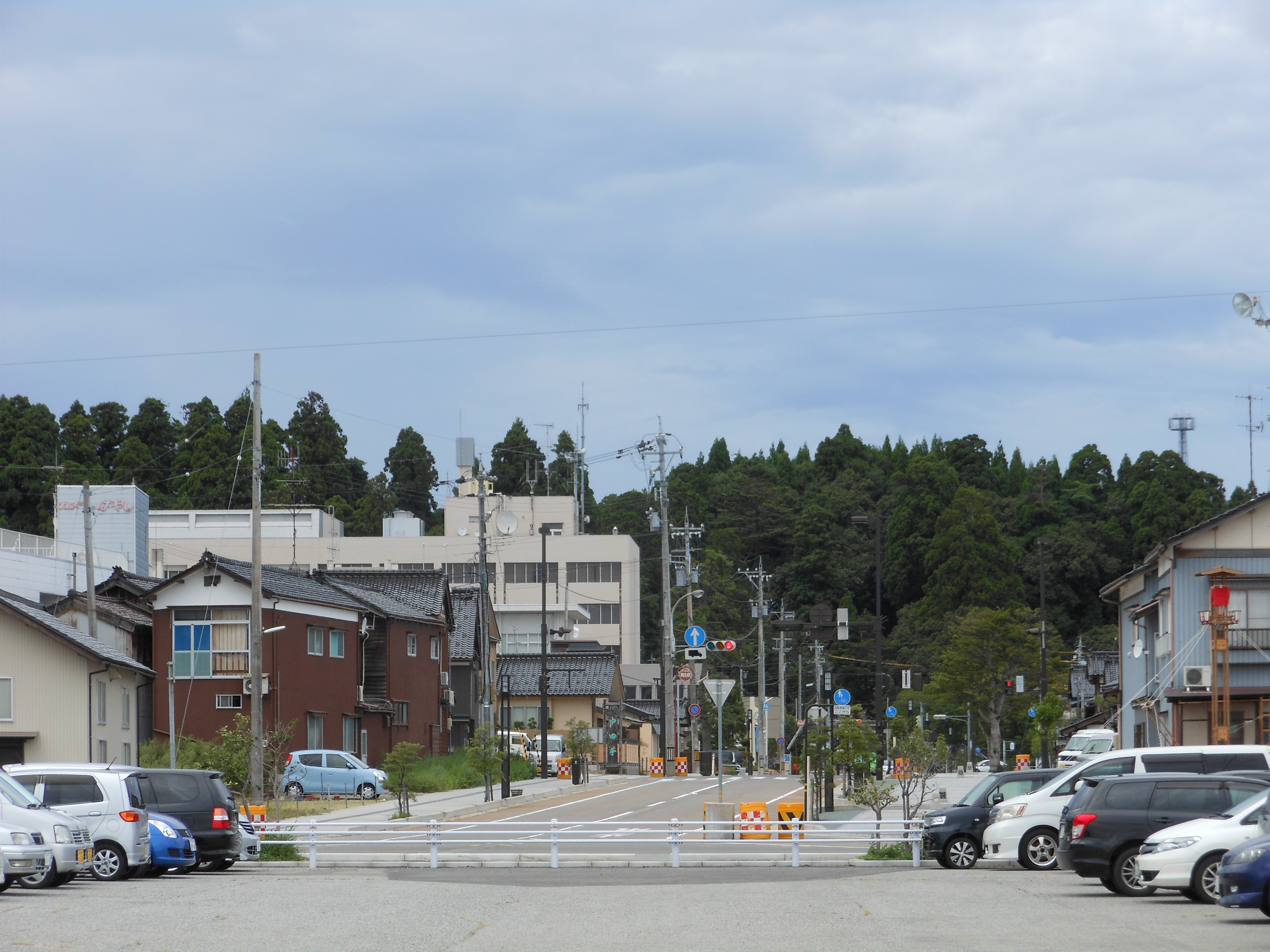 This is a landscape of Iida-machi, Suzu city, Ishikawa prefecture, Japan.